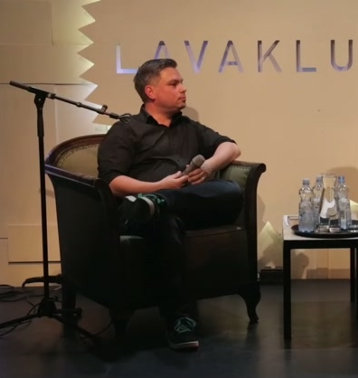 Tommi Kinnunen in interview in Helsinki 16.10.2014